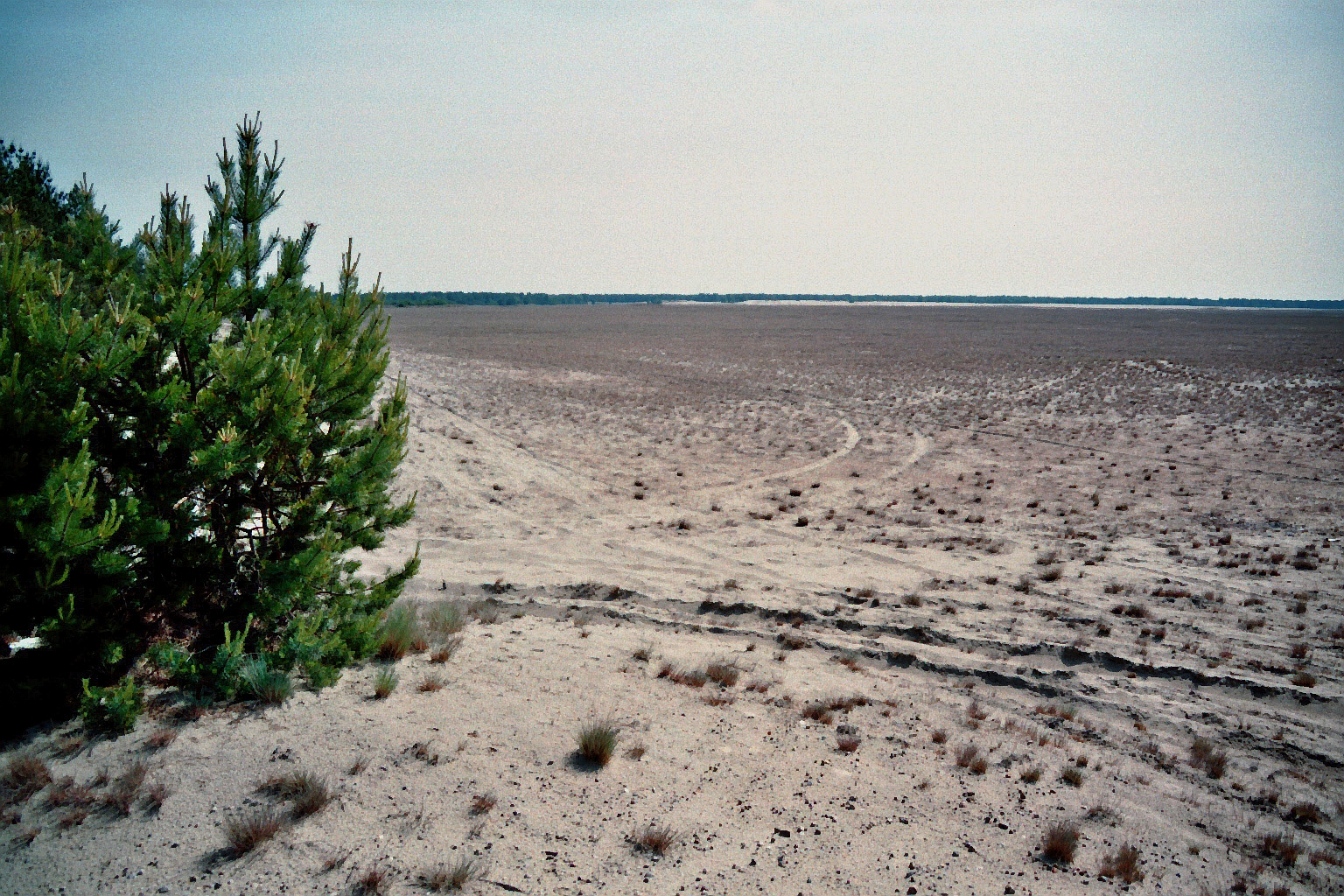 Lieberose Desert (Lieberoser Wüste) in the Lieberoser Heide near Lieberose, Landkreis Dahme-Spreewald, Brandenburg, Germany. It is Germany's largest desert. (Photo taken on a guided tour.)